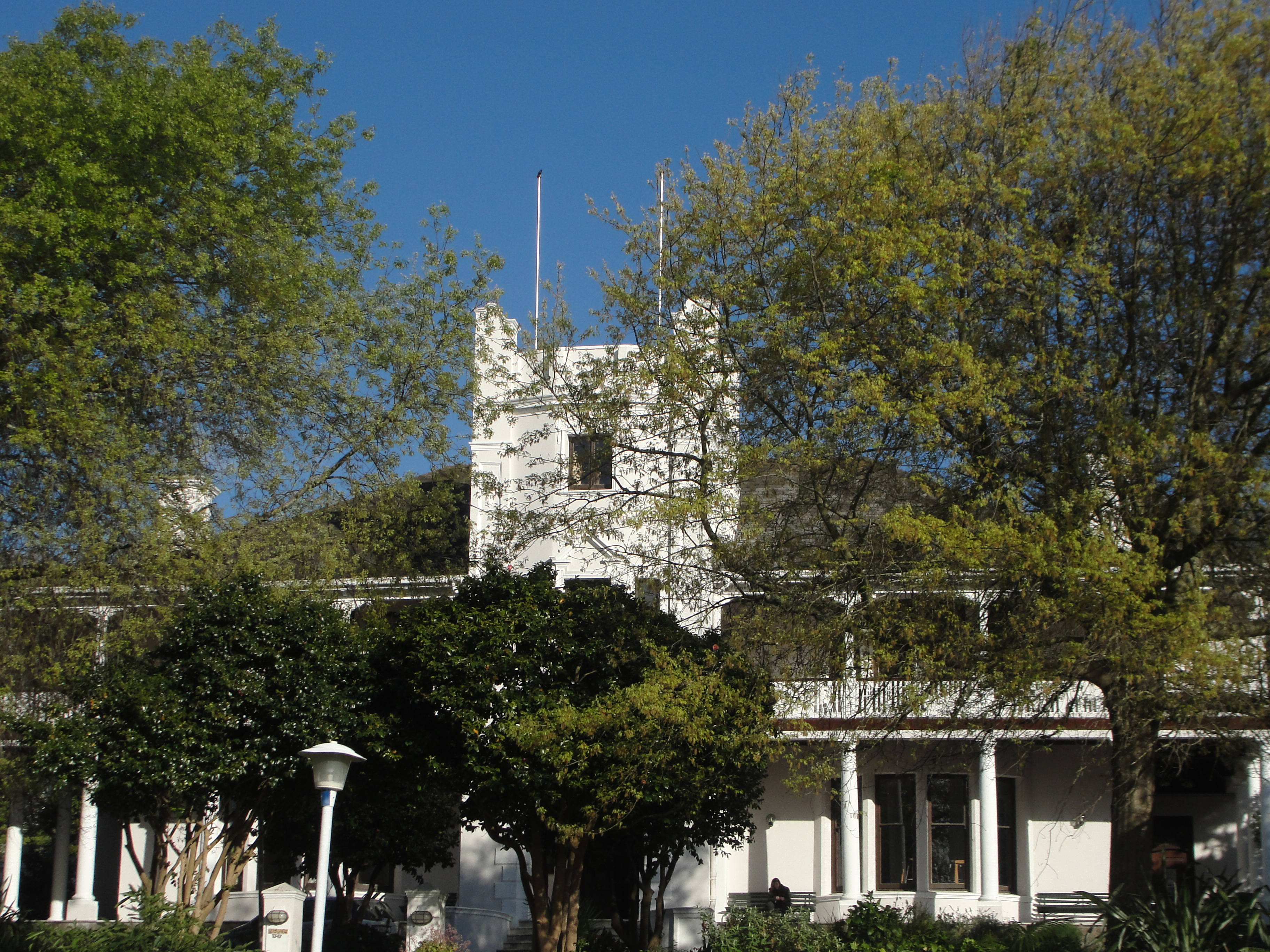 Vredenhof, Keurboom Road, Claremont, Cape Town This media shows a South African Protected Site with SAHRA file reference 9/2/111/0032.